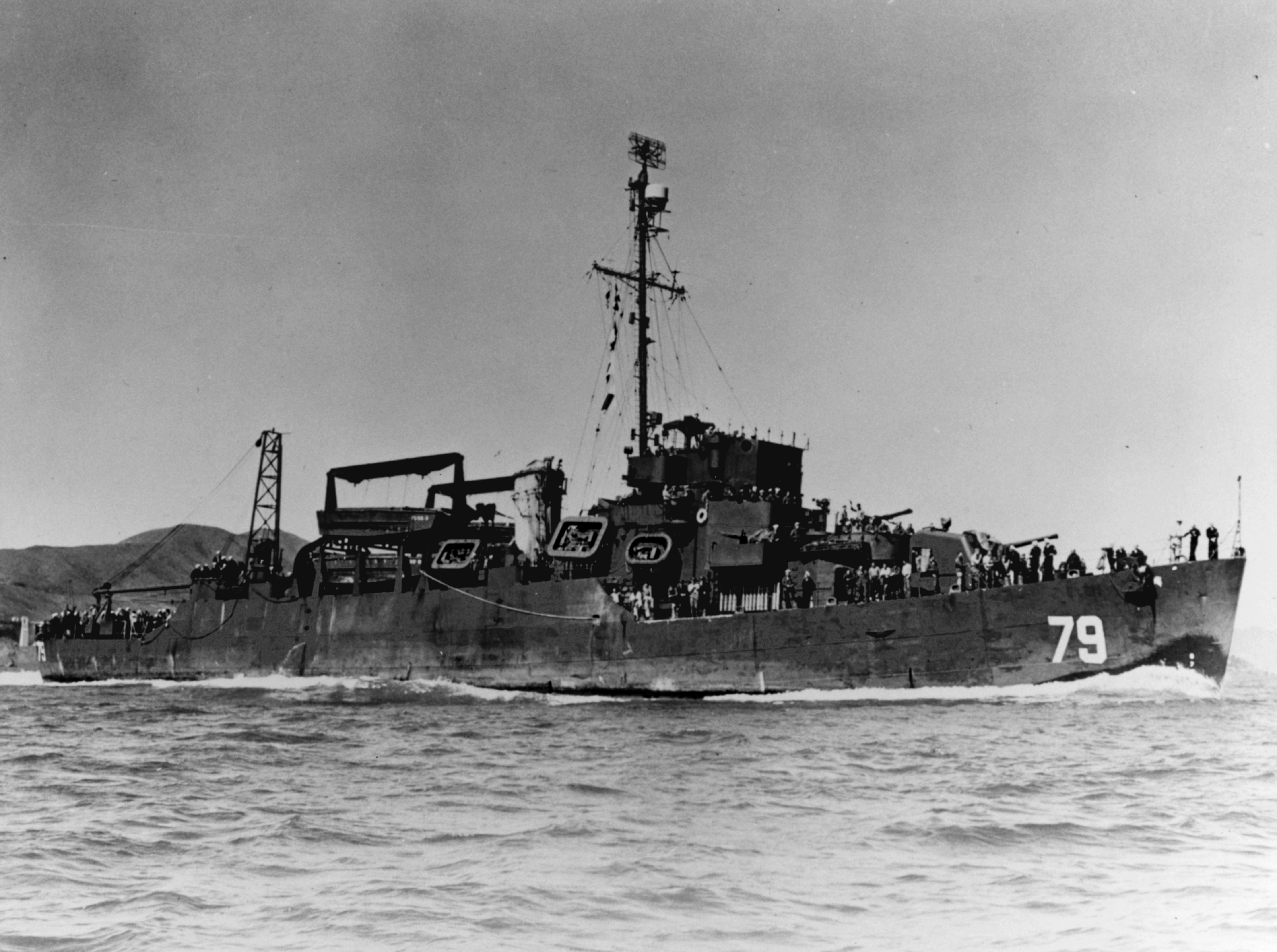 The U.S. Navy high-speed transport USS Bunch (APD-79) underway in San Francisco Bay, California (USA), circa March 1946.